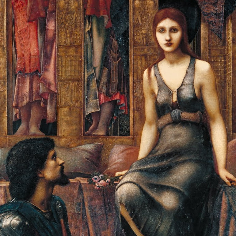 Cropped version of our file from Google Art Project, by Burne-Jones 1884, King Copheteva and the Beggar Maid